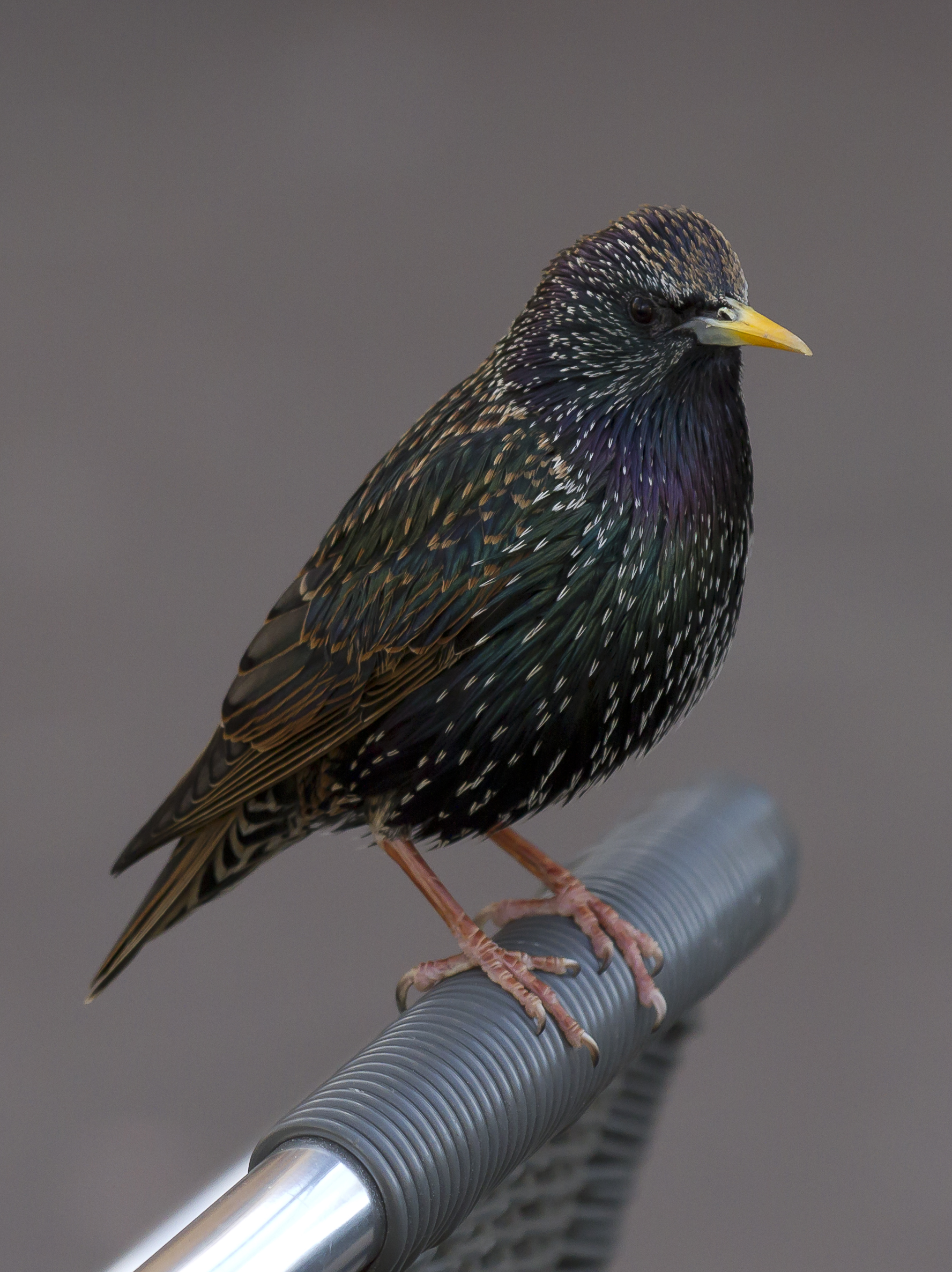 Common starling (Sturnus vulgaris) in Toulouse